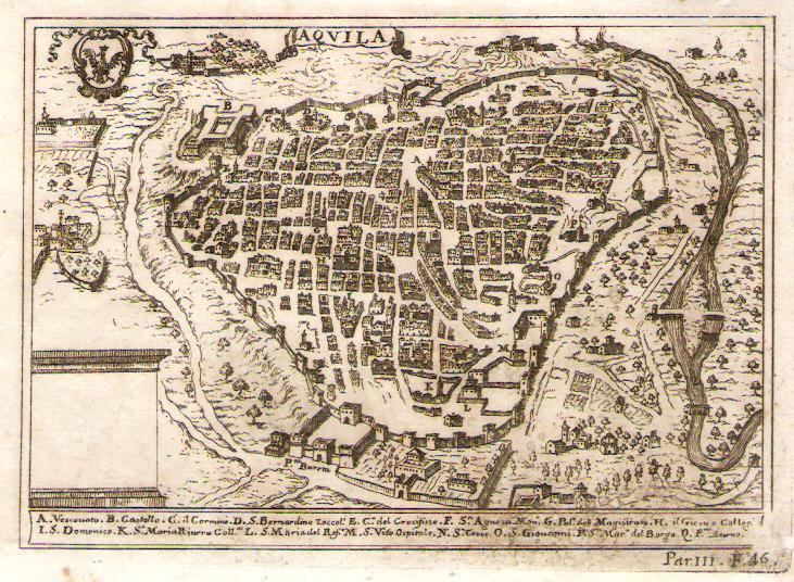 Aquila Topography on 1703